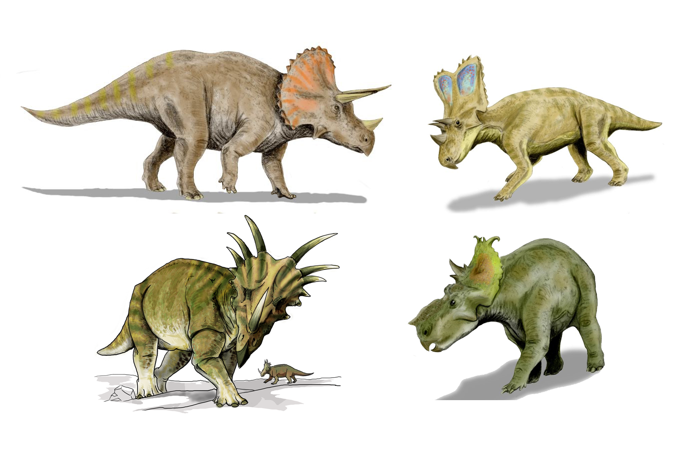 Ceratopsidae: Triceratops, Chasmosaurus Styracosaurus, Pachyrhinosaurus